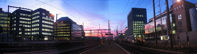 Zuerich Altstetten sundown